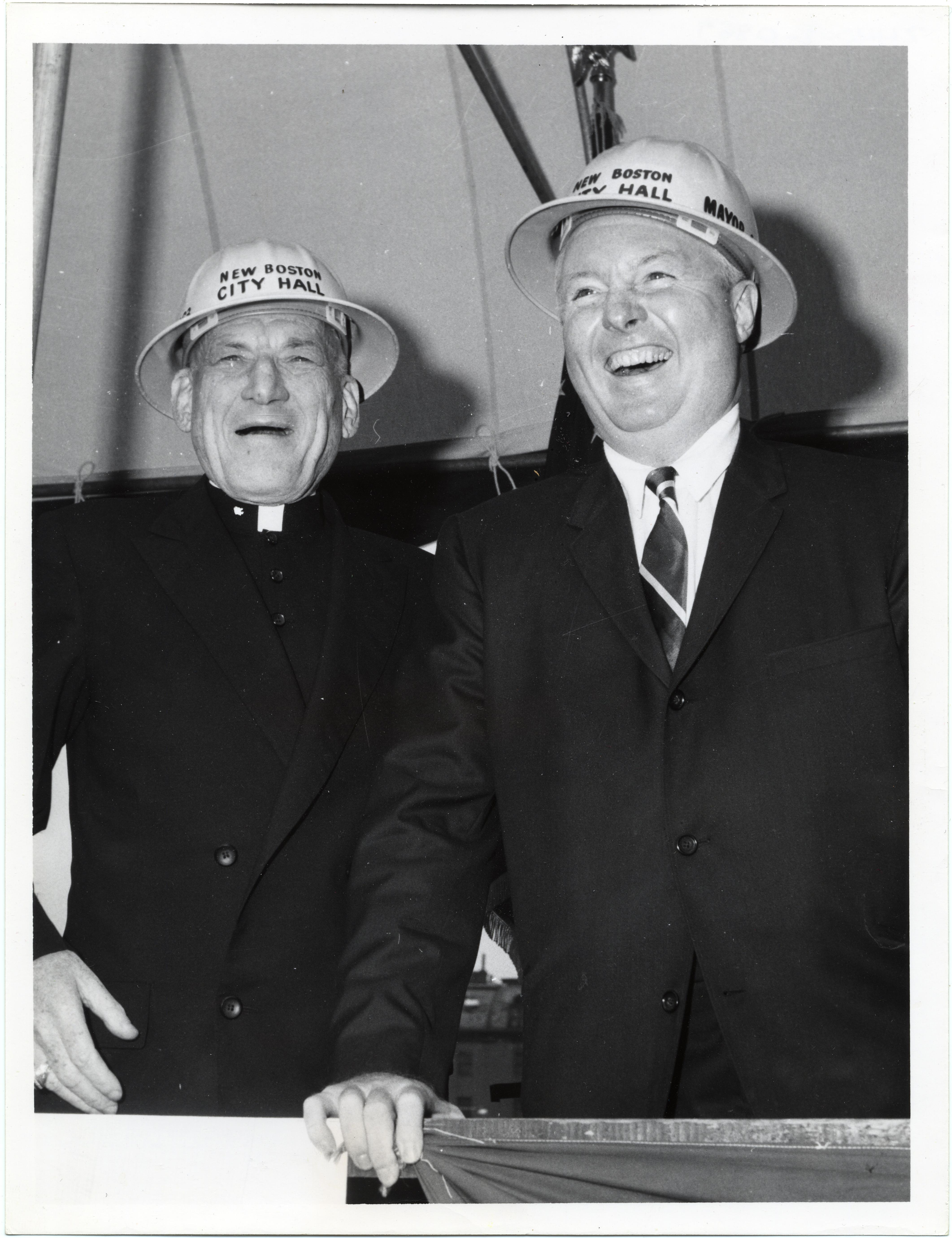 Title: New City Hall groundbreaking with Cardinal Richard Cushing and Mayor John F. Collins Creator: John Lane Date: 1963 June Source: Mayor John F. Collins records, Collection #0244.001 File name: 244001_0859 Rights: Rights status not evaluated Citation: Mayor John F. Collins records, Collection #0244.001, City of Boston Archives, Boston